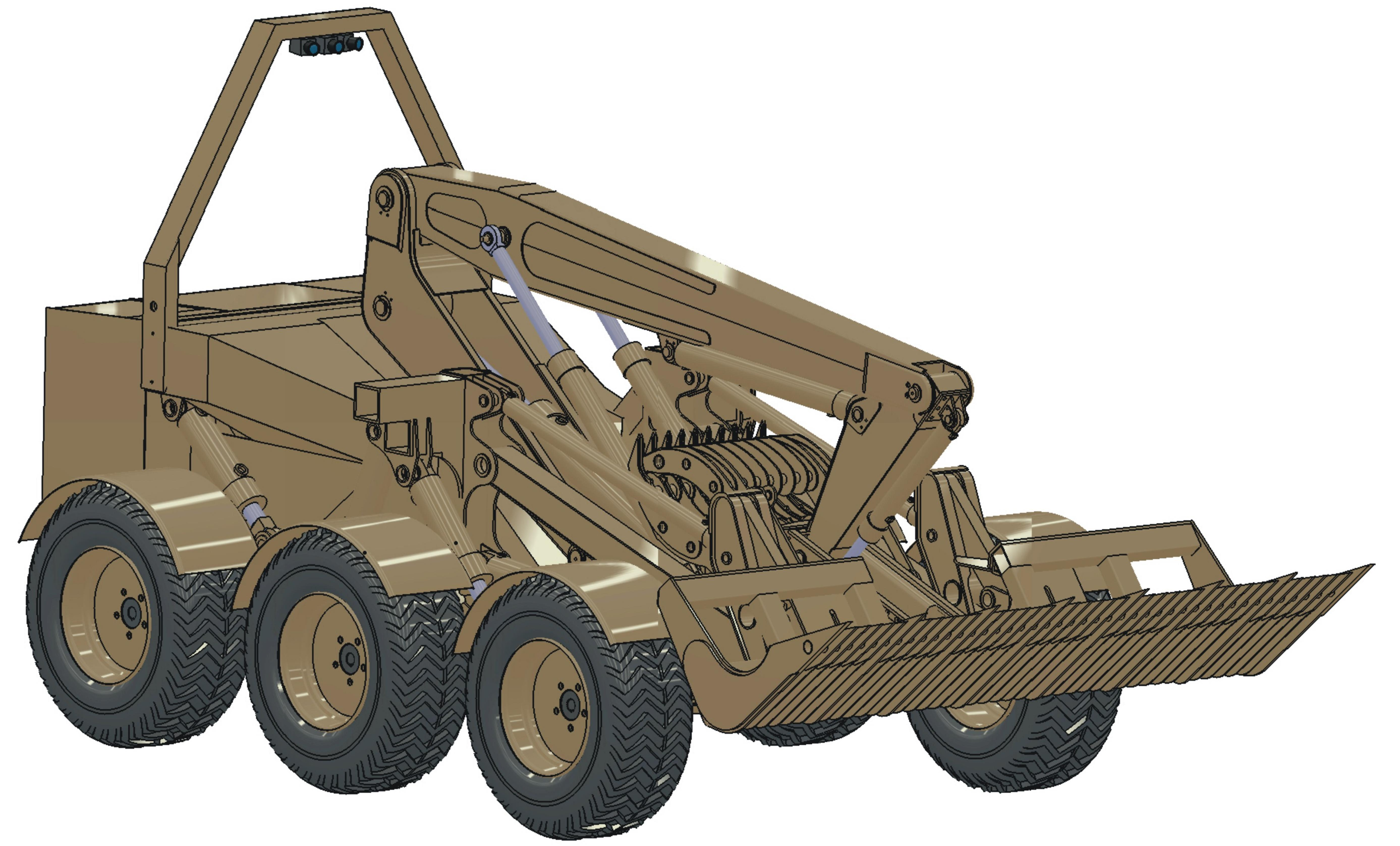 EOD Robot MAREK